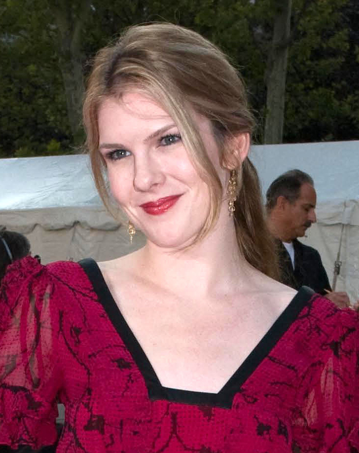 Actress Lily Rabe at the Metropolitan Opera opening in 2008.